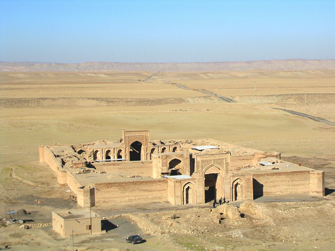 Ribat-i Sharaf (or Robat-e Sharaf) is a caravanserai, or rest place for travellers, that is located in Razavi Khorasan Province, Iran, between Merv and Nishapur.